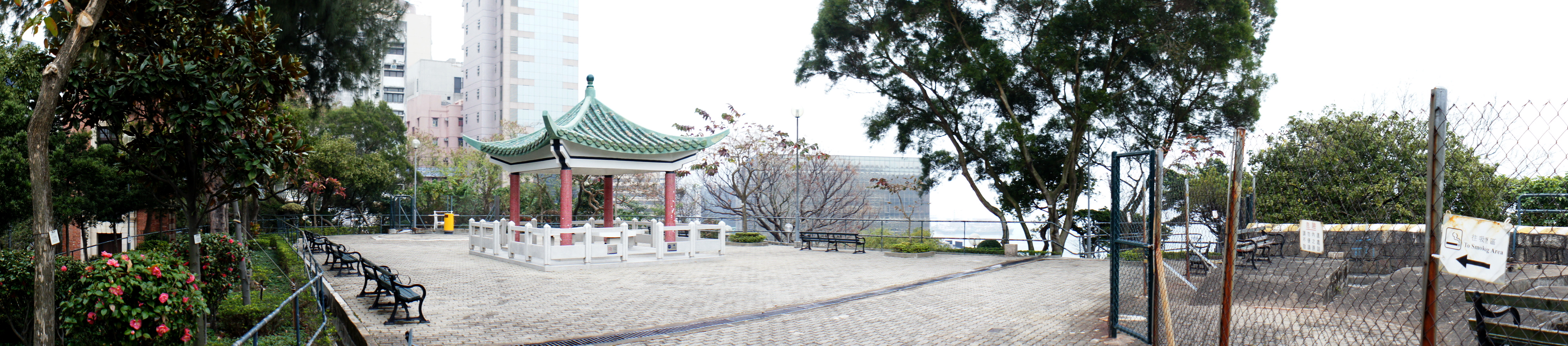 Signal Hill Garden (also known as Blackhead Point) at Tsim Sha Tsui, Hong Kong. (panoramic photo)